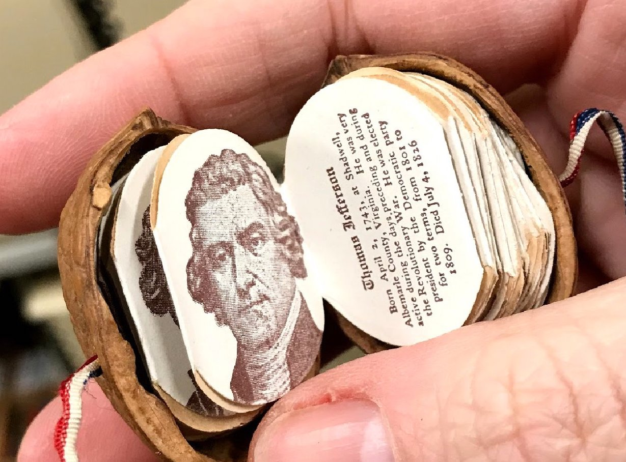 A miniature accordion book open to a page spread of a portrait of Thomas Jefferson and a brief biography. Book his housed inside a walnut shell with ribbon closure. The open book is held in a hand to show its scale.